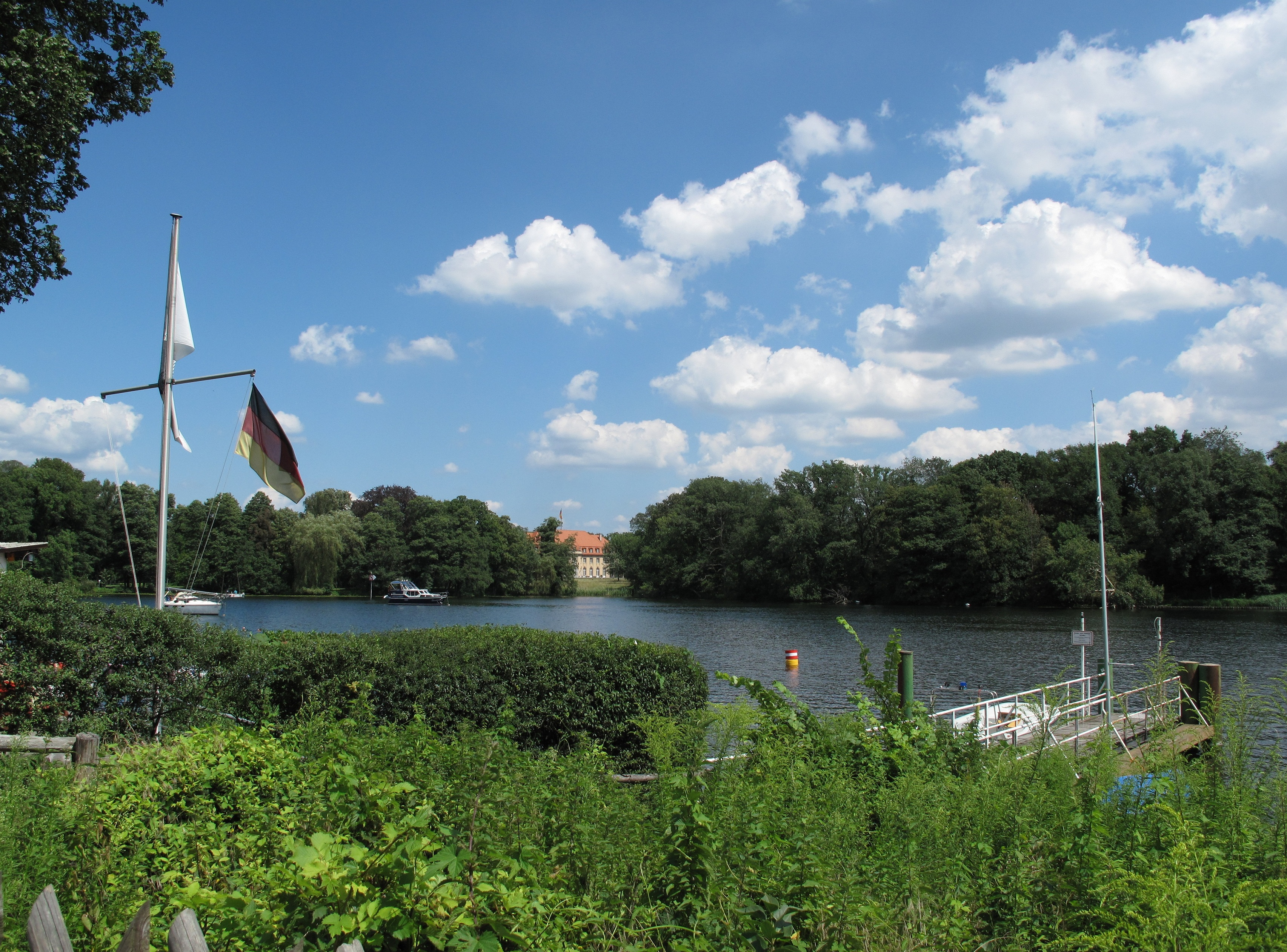 View to the western bank of Reiherwerder and the villa of the Borsig-family. Reiherwerder is a former island and present peninsula of the Lake Tegel in the locality Tegel, Borough Reinickendorf, Berlin, Germany.